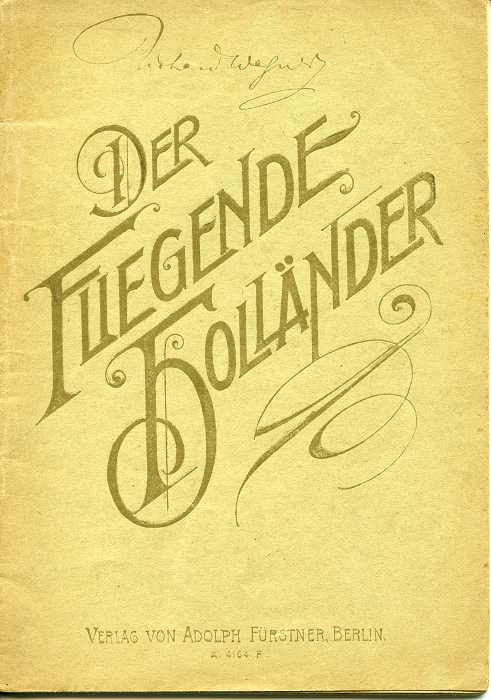 Cover of Der fliegende Holländer libretto